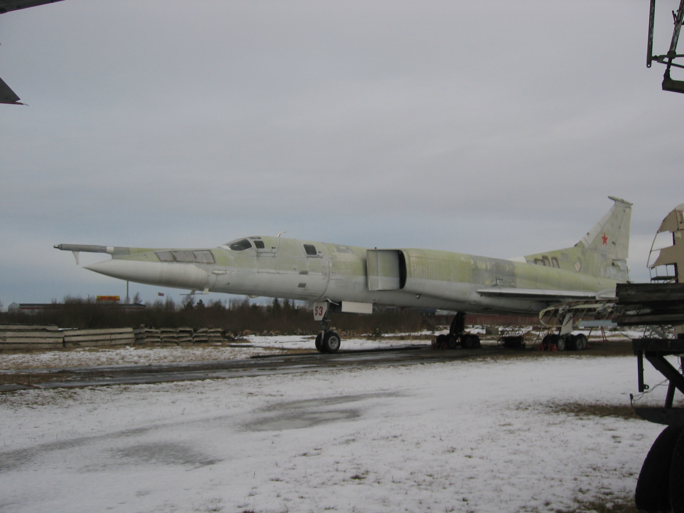 Image of believed Tu-22M, 30-01-2006 at Riga airport aircraft museum.